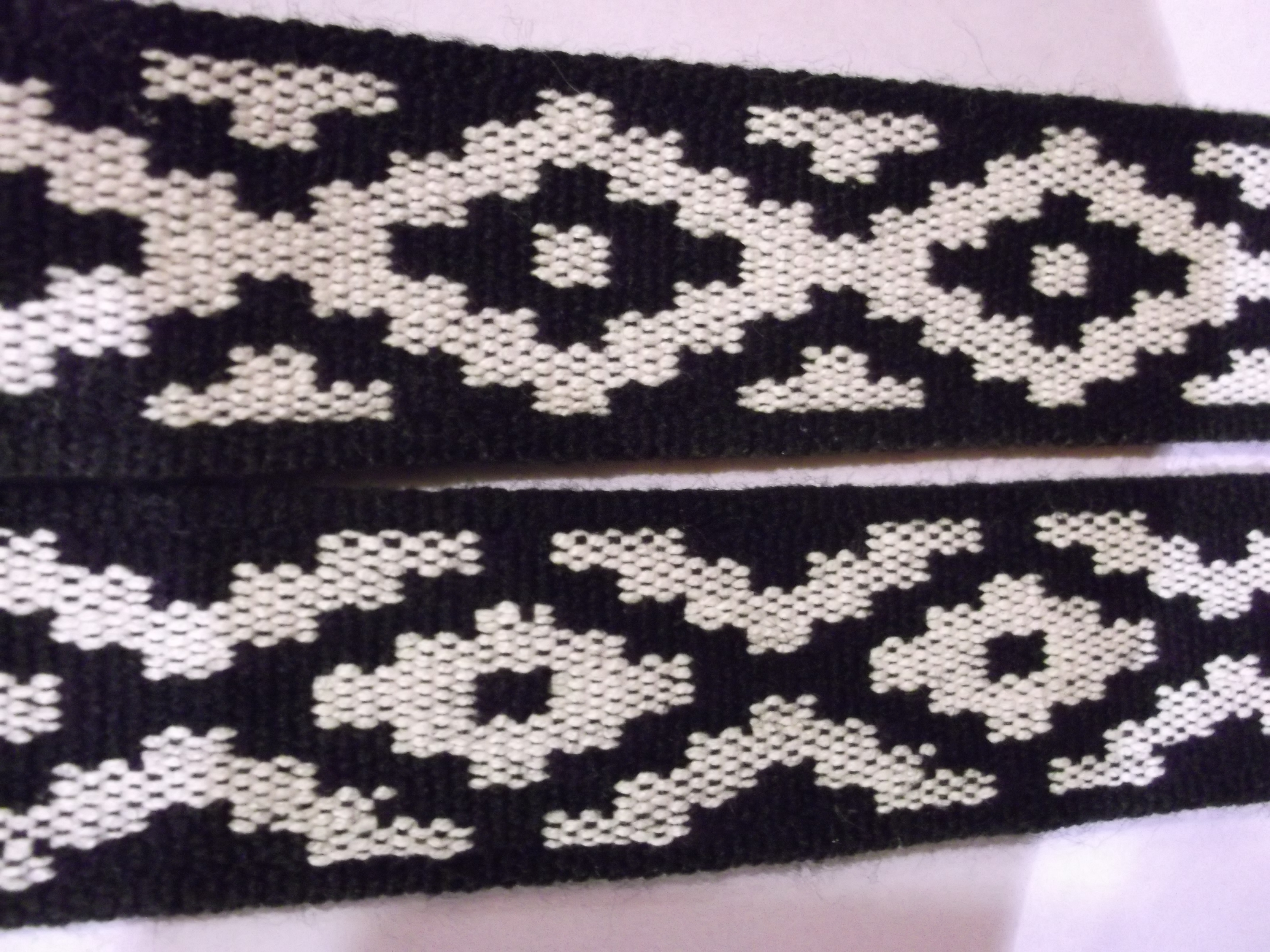 Cotton ribbon with the classical pattern found in the Mapuche culture. The center design is very similar to the chakana, found in many South American cultures. Was buy in a shop.